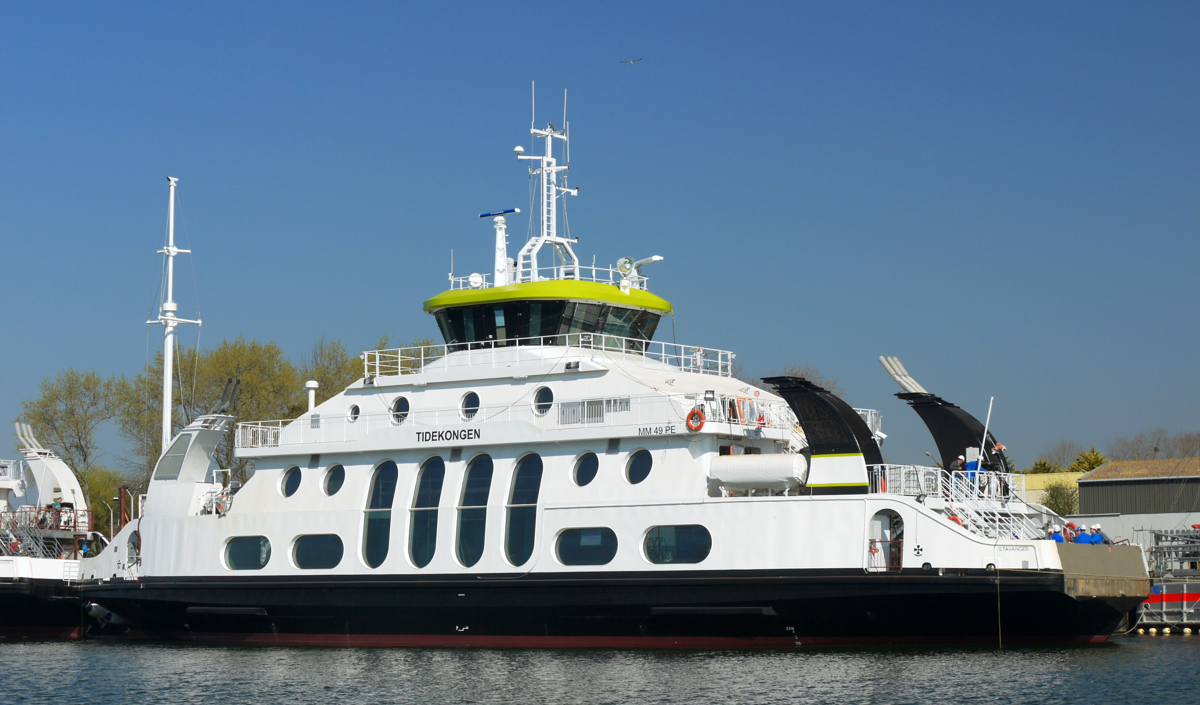 Ferry Tidekongen dedicated to the link between Oslo and the peninsula of Nesodden (Norway). STX France shipyard, Lorient